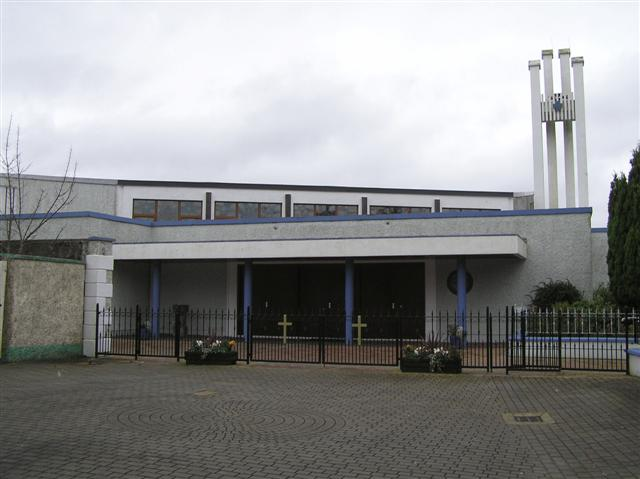 Swanlinbar RC Church A bomb destroyed the Chapel during the early 1970's, therefore a new one was built. This is of modern design, and was opened in 1978.